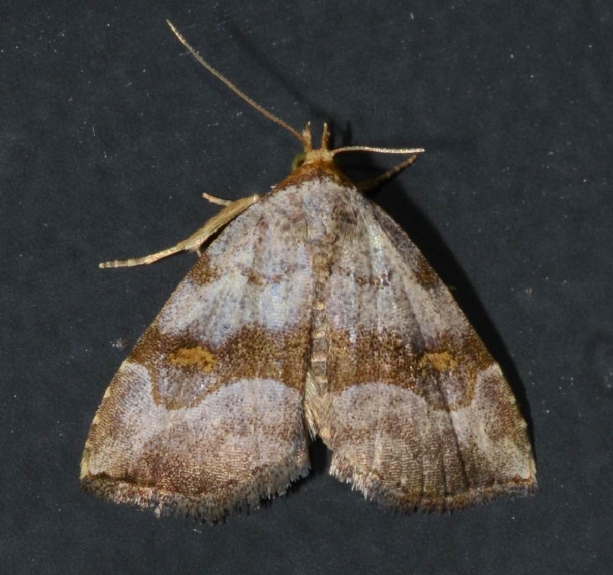 Cuivre River State Park 8/15/15